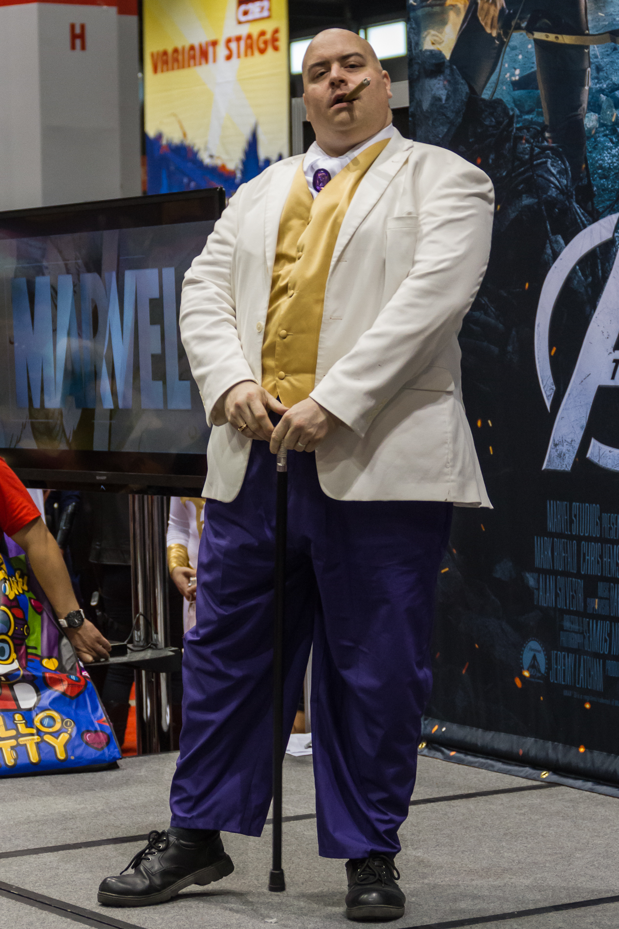 Costume of the fictional character Kingping. cosplay